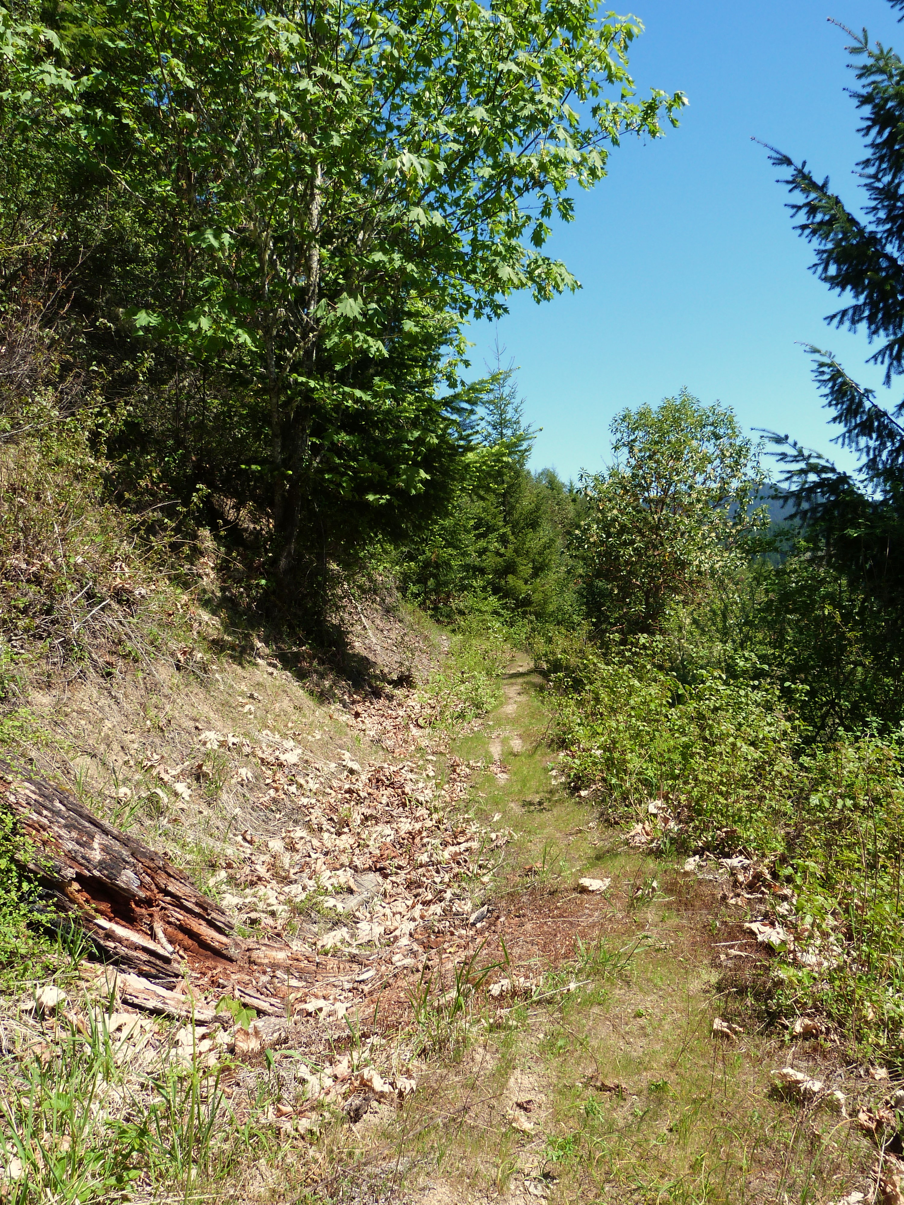 A portion of the China Ditch near Myrtle Creek, Oregon, United States, that has been developed as a walking trail, as well as listed on the US National Register of Historic Places.